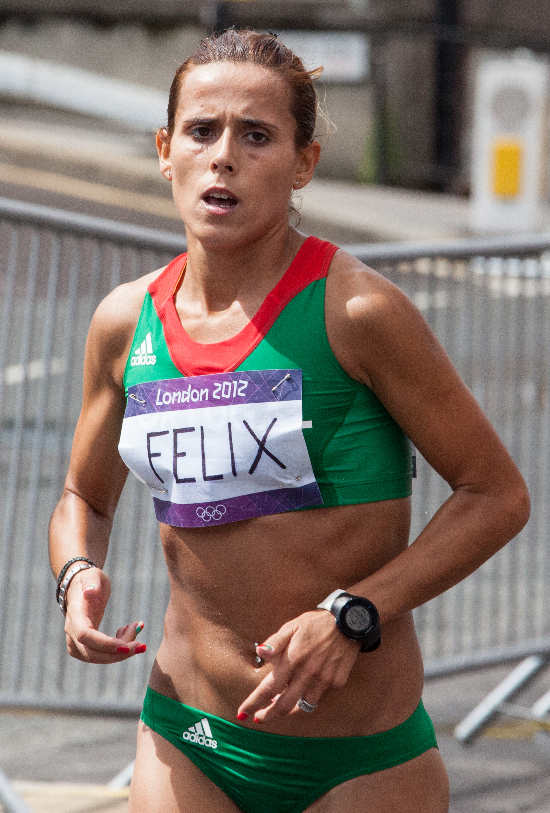 The women's marathon at the 2012 Olympic Games in London was held on the Olympic marathon street course on 5 August 2012.